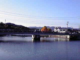 The Ikeda Bridge in Isobecho Anagawa, Shima City, Mie Prefecture, Japan